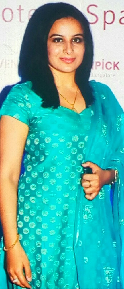 Indian actress